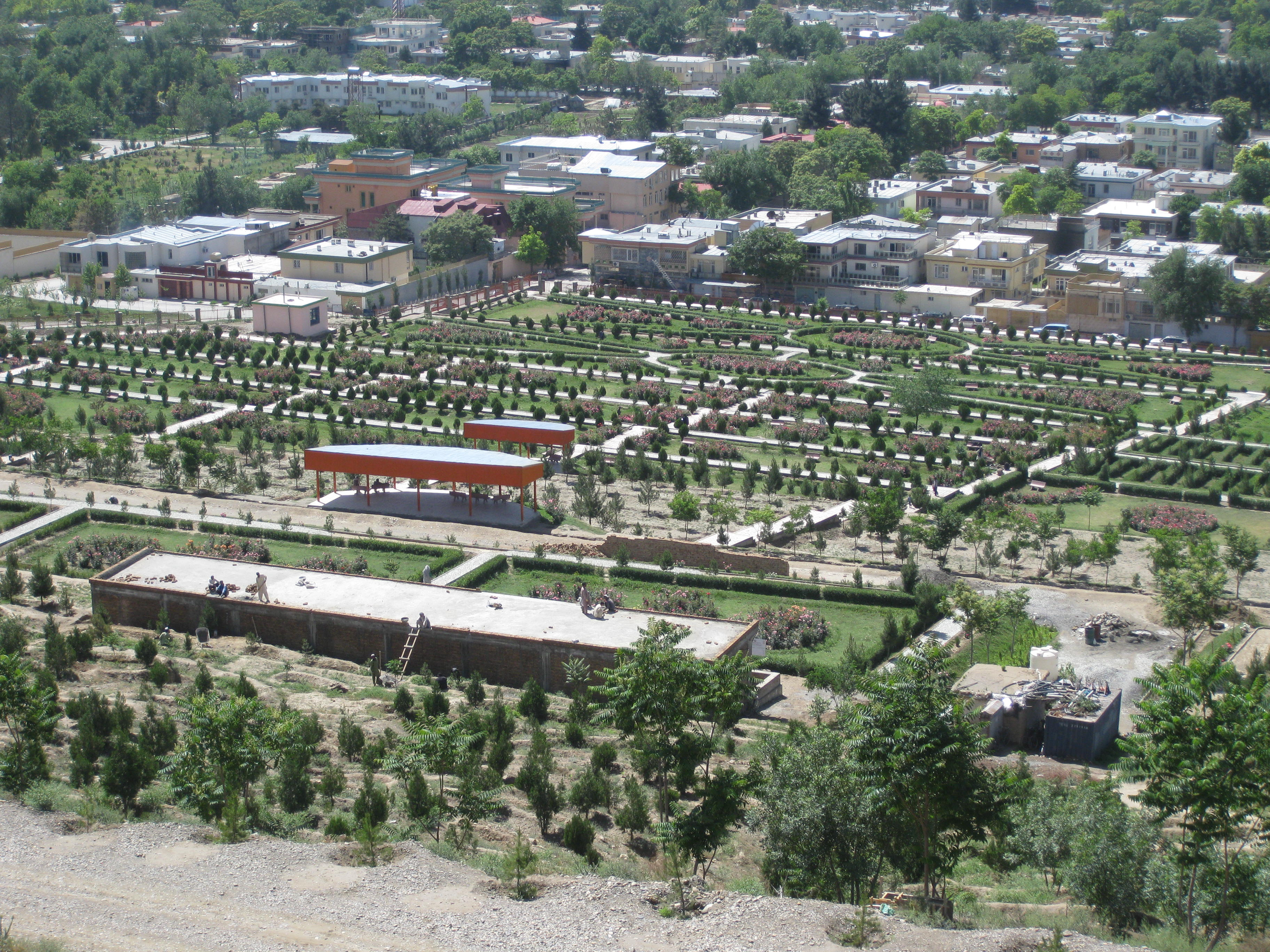 Bebi Mahroo Park Ceremony